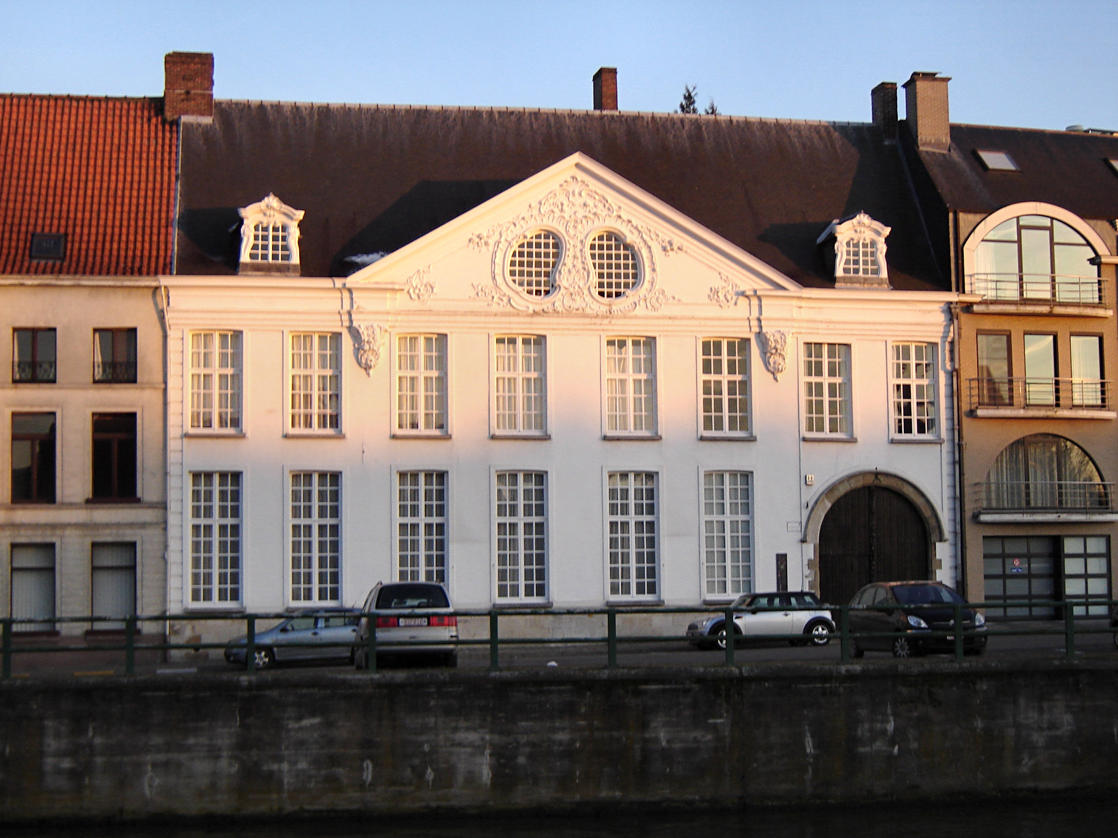 Huis de Lalaing in Oudenaarde. Oudenaarde, East Flanders, Belgium